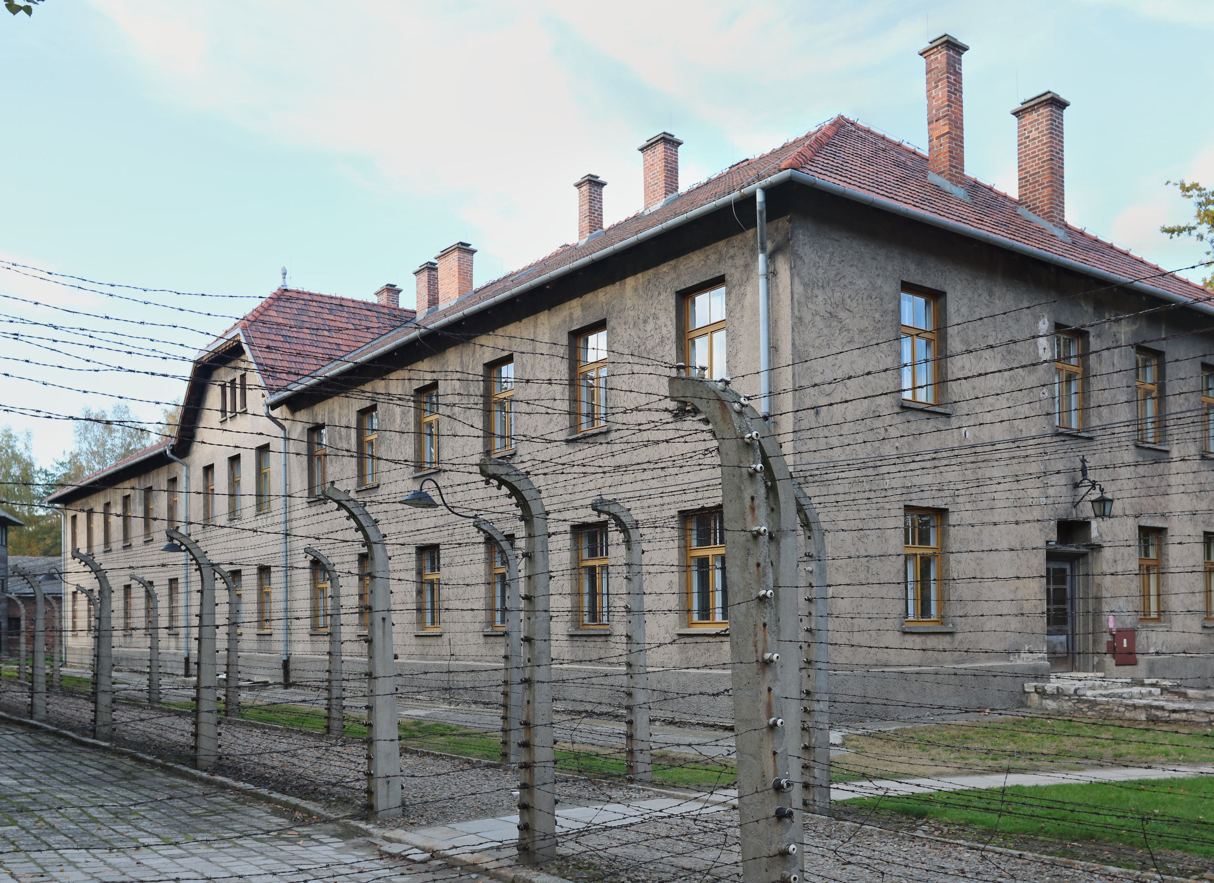 Auschwitz I - barrack and barbed wire